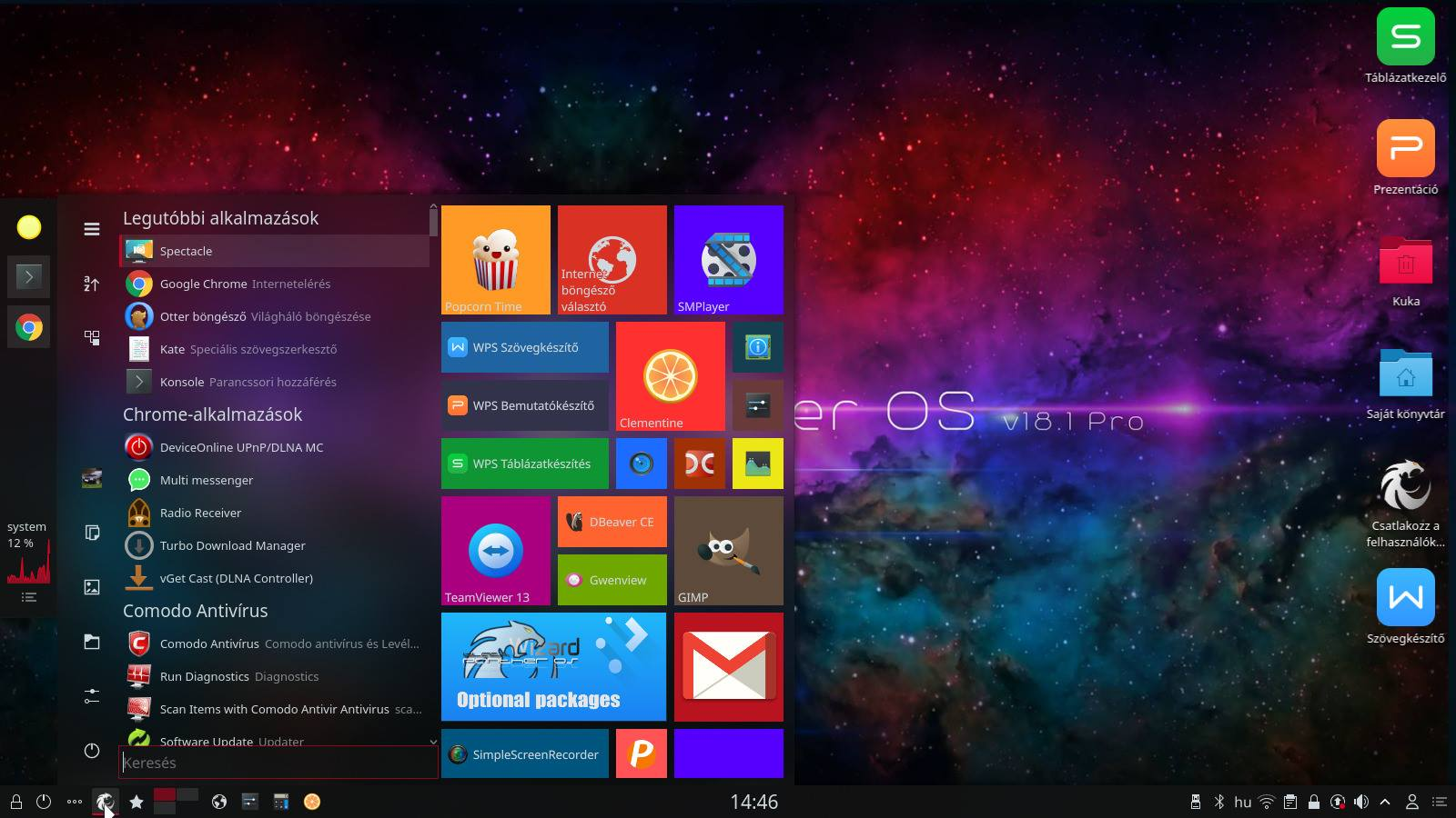 blackPanther OS v18.1 Pro